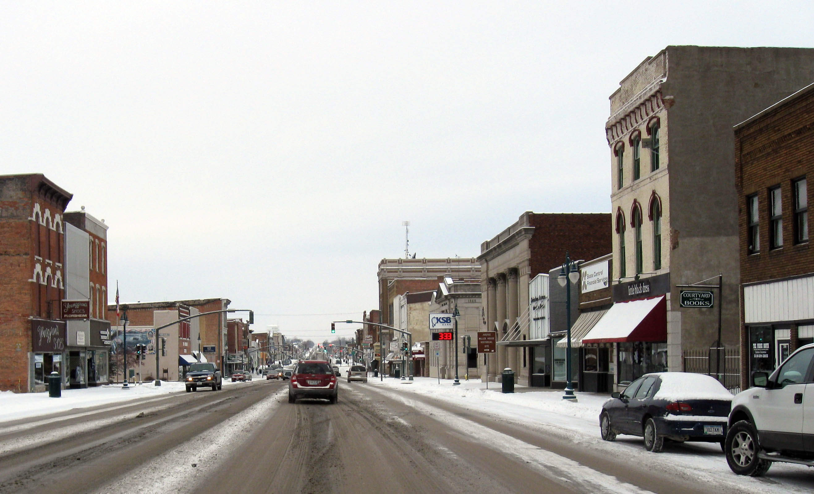 Keokuk, Iowa, Main Street. Handsome downtown! Wish it had been sunny... Billwhittaker (talk) 21:19, 2 February 2009 (UTC)